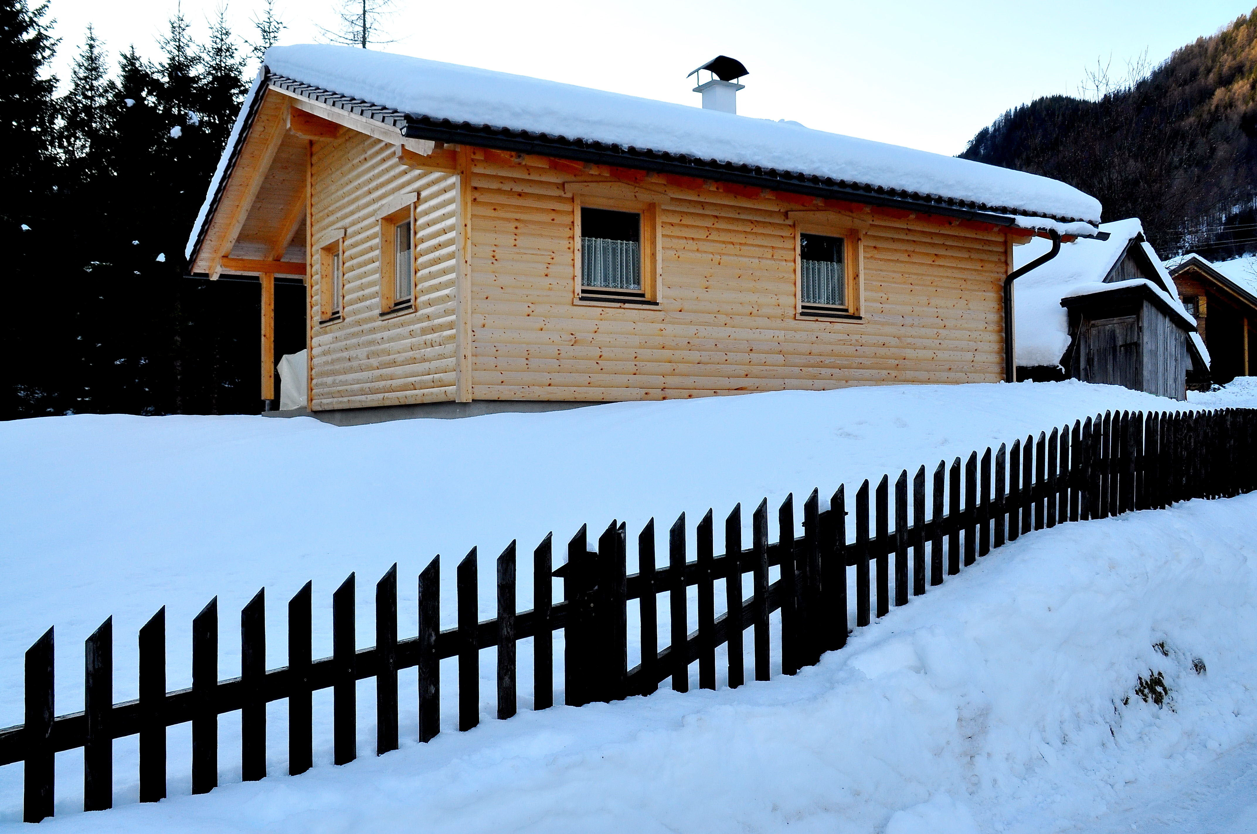 New blockhouse as alpine hut in the Bodental, municipality of Ferlach, Carinthia, Austria